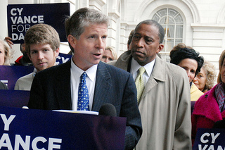 Vance Campaign Announcement Photo. Public image, sized for websites.